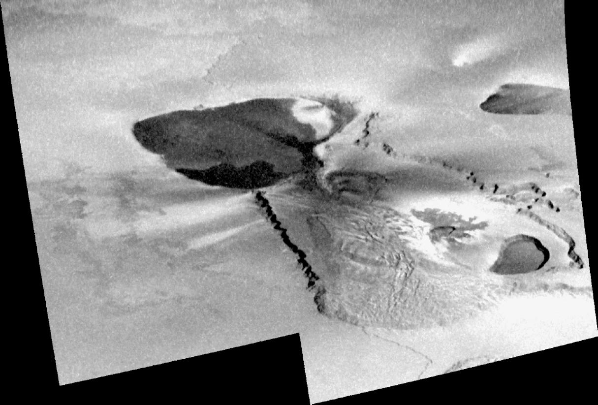 This mosaic of Tvashtar Catena (now called Tvashtar Paterae) on Jupiter's moon Io, taken by NASA's Galileo spacecraft on Oct. 16, 2001, completes a series of views depicting changes in the region over a period of nearly two years. A catena is a chain of volcanic craters. Streaks of light and dark deposits that radiate from the central volcanic crater, or "patera," are remnants of a tall plume that was seen erupting in earlier images. This image and the others from November 1999, February 2000, December 2000, and August 2001 were all taken to study aspects of this ever-changing, extremely active volcanic field. Tvashtar is pictured here just 10 months after both the Galileo and Cassini spacecraft observed the eruption of a giant plume of volcanic gas emanating from it. The plume rose 385 kilometers (239 miles) high and blanketed terrain as far as 700 kilometers (435 miles) from its center. Tvashtar has erupted in a variety of styles over the course of almost two years: (1) a lava curtain 50 kilometers (30 miles) long in the center patera, (2) a giant lava flow or lava lake eruption in the giant patera at far left, and (3) the large plume eruption. Therefore, Galileo scientists expected that the lava flow margins or patera boundaries within Tvashtar would have changed drastically. However, the series of observations revealed little modification of this sort, suggesting that the intense eruptions at Tvashtar are confined by the local topography. North is to the top of the mosaic, which is approximately 300 kilometers(186 miles) across and has a resolution of 200 meters (656 feet) per picture element.